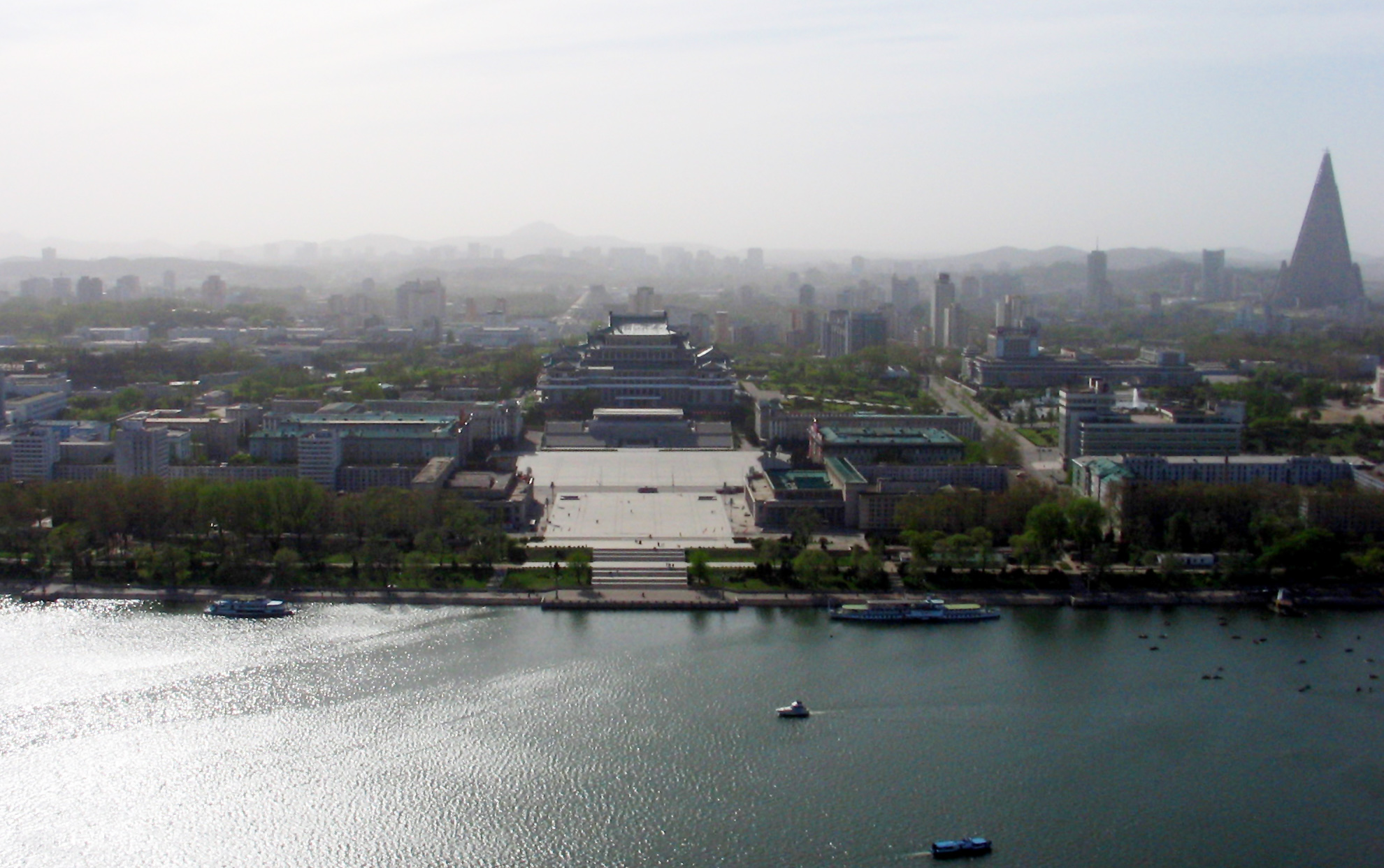 Pyongyang, North Korea as seen from the Juche Tower, facing west across the Taedong river. The large square in the centre is Kim Il-Sung Square; the large building behind it is the Grand People's Study House. The massive triangular building on the right of the photo is the Ryugyong Hotel. The haze was due to forest fires near the China/Mongolia border, and is not the smog typical of large East Asian cities. (Photograph taken with a Canon PowerShot A85)